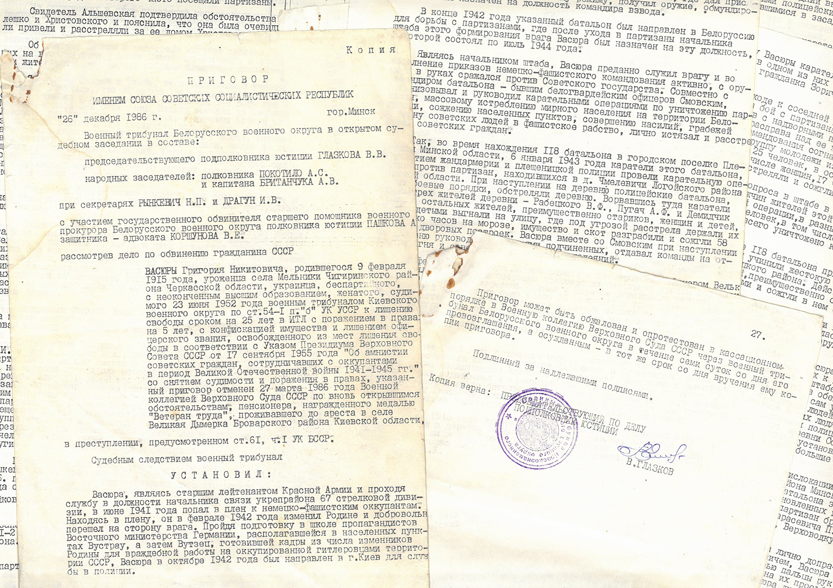 The sentence to Hryhoriy Vasiura, an executioner of the Khatyn massacre, handed down by the Tribunal of the Belorussian Military District on December 26, 1986. (in Russian) Central Archive of the KGB (State Security Agency) of the Republic of Belarus. Arch. criminal case 26746